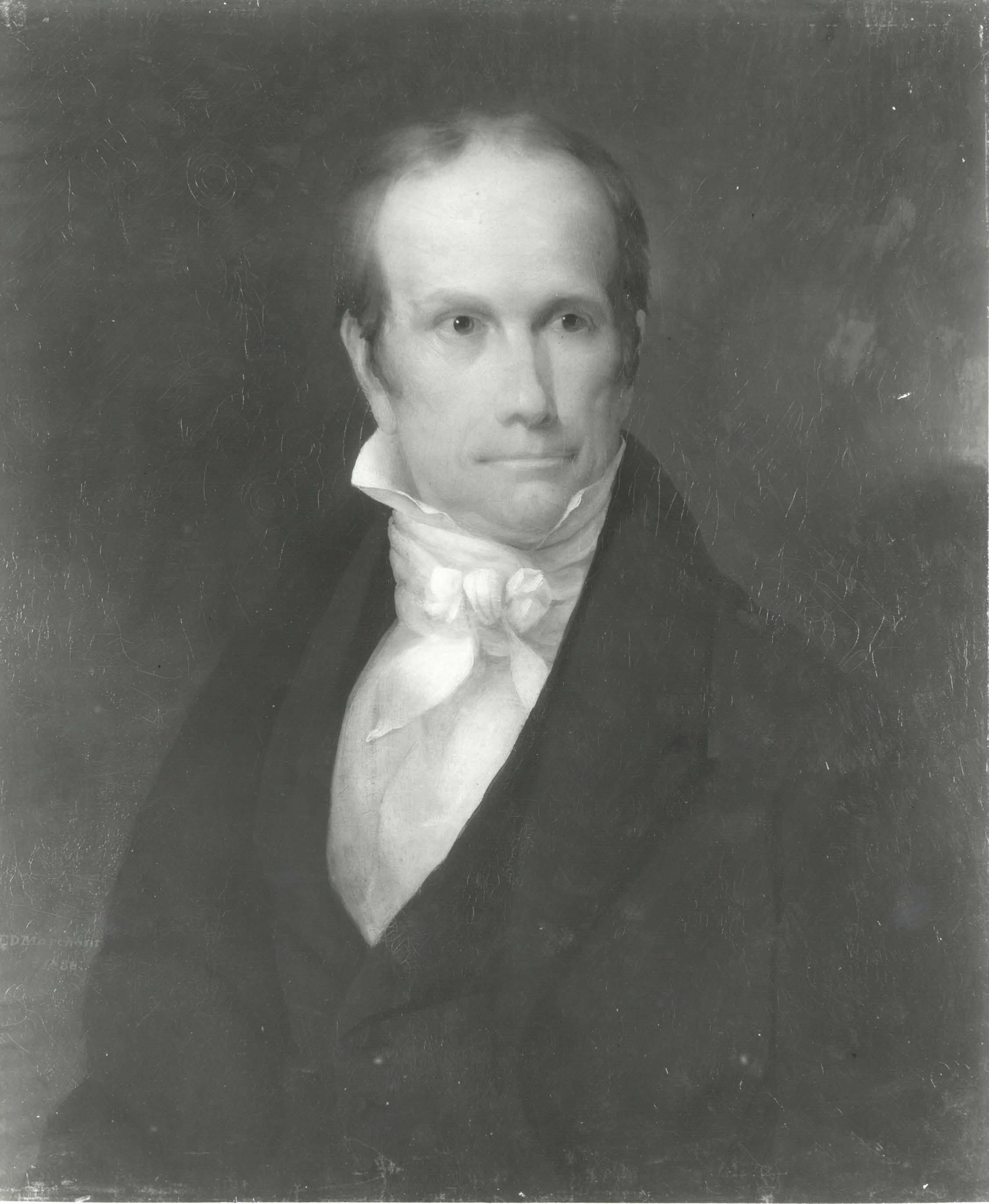 Henry Clay, U.S. Secretary of State, March 7, 1825 to March 3, 1829